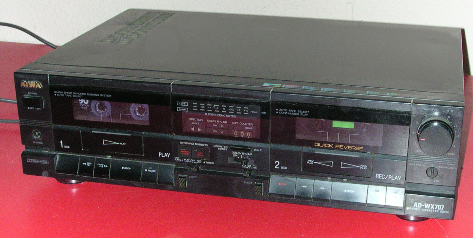 Aiwa AD WX707 double tape deck